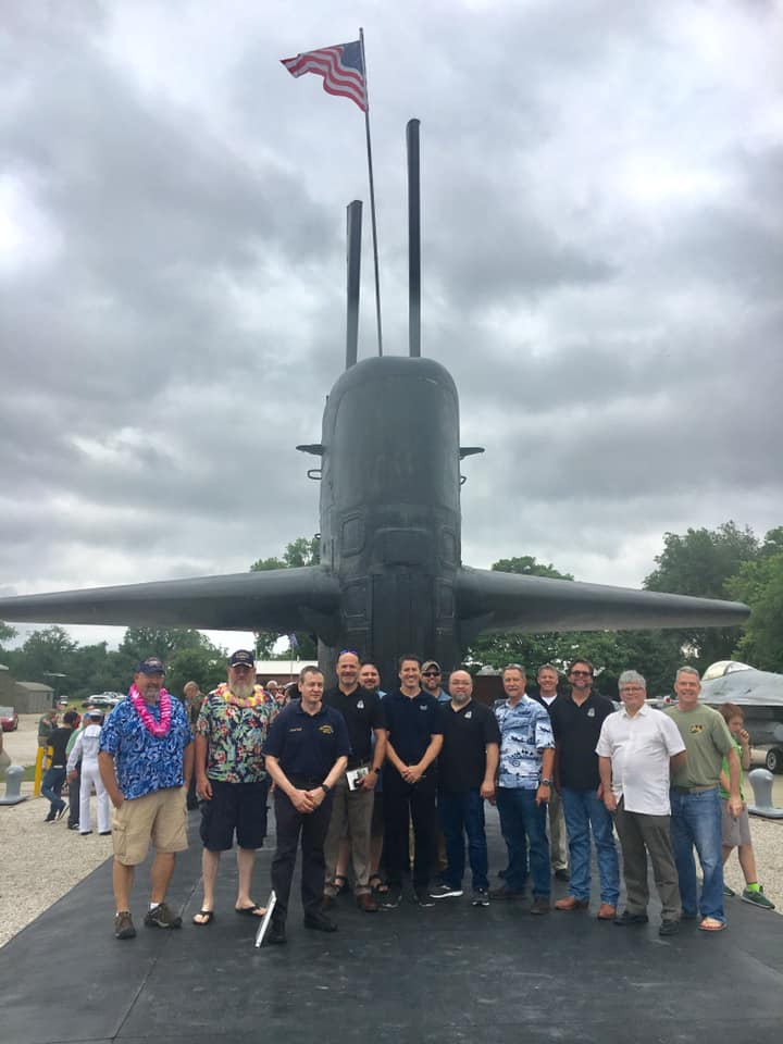 Former crew and officers standing fore of sail from USS Indianapolis(SSN 697) after dedication at Indiana Military Museum in Vincennes, Indiana.